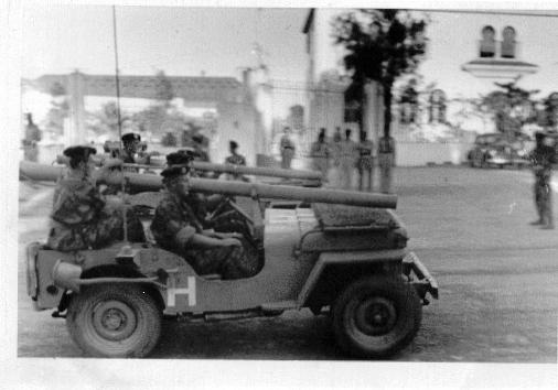 Willys Jeep with a M40 106 mm recoilless rifle, 26th Infantry Regiment, French Army